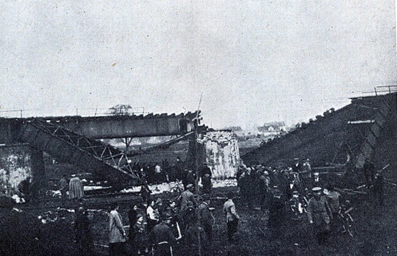 Photo made by an anonymous Polish soldier- one of the bridges over Odra River blow up by Polish insurgents in Silesia 1921